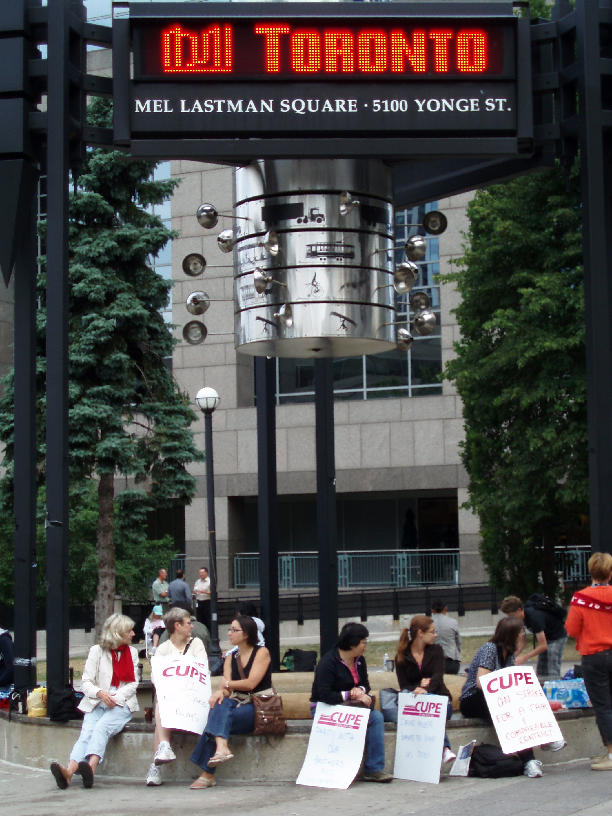 2009 City of Toronto inside and outside workers strike Mel Lastman Square